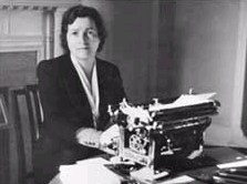 Kathleen O’Connell seated at a typewriter in the Piccadilly Hotel, London during the de Valera/ Chamberlain talks. re